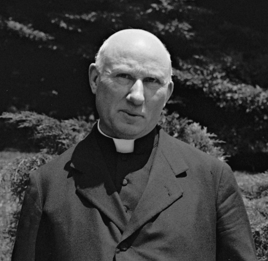 Italian cardinal Pietro Fumasoni Biondi (1872-1960)